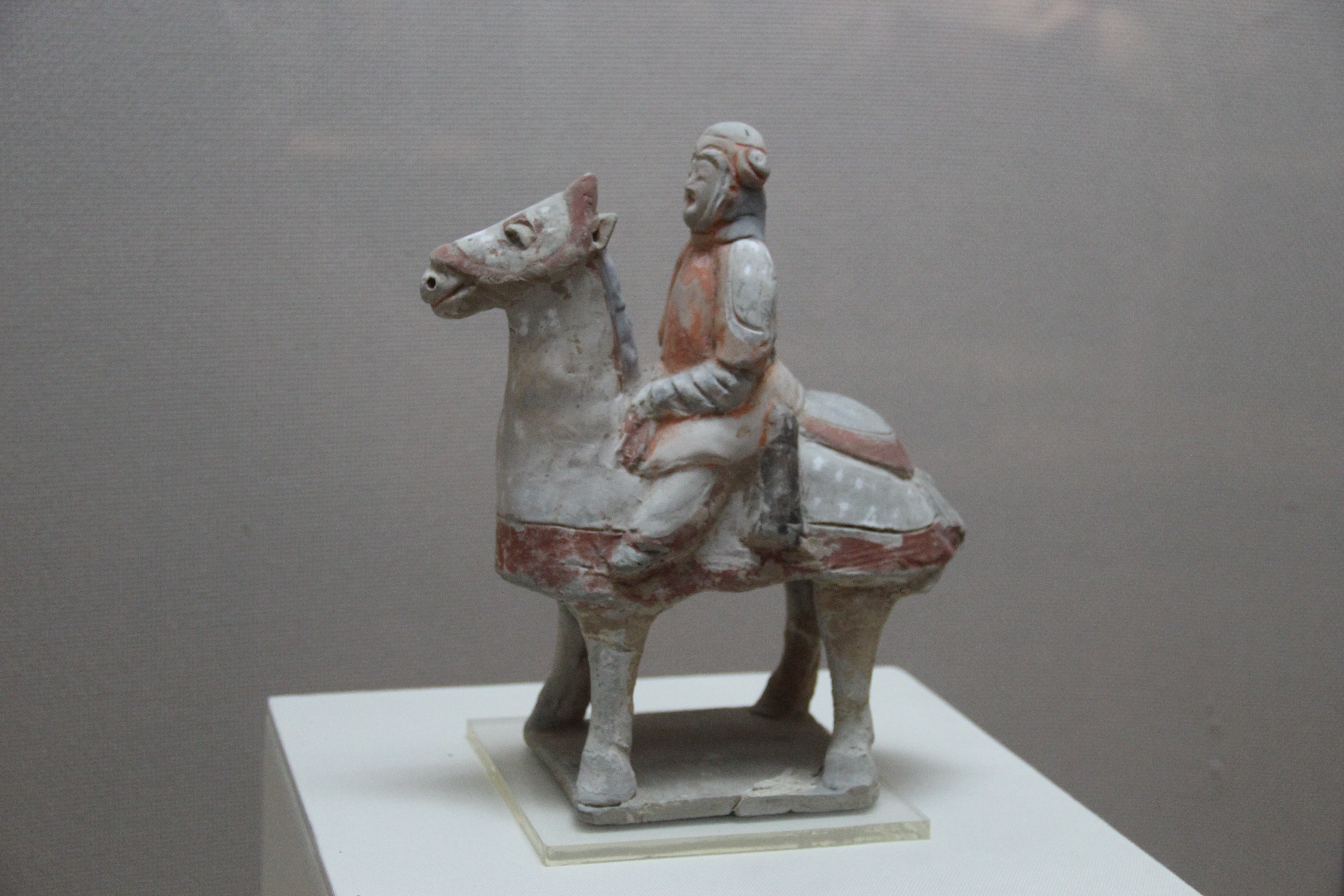 Northern Dynasties Pottery Horse & Rider